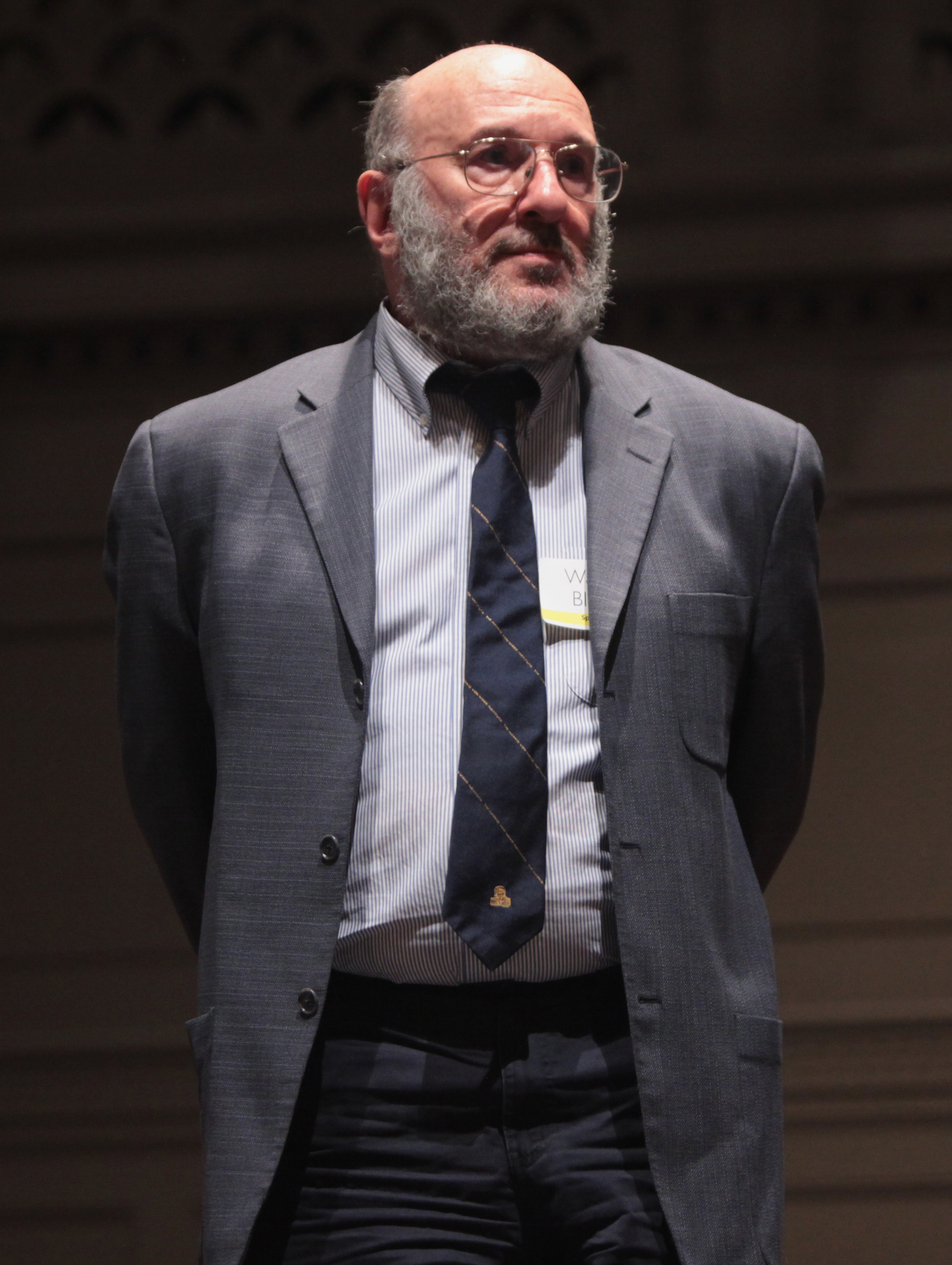 Walter Block speaking at an event in Seattle, Washington.